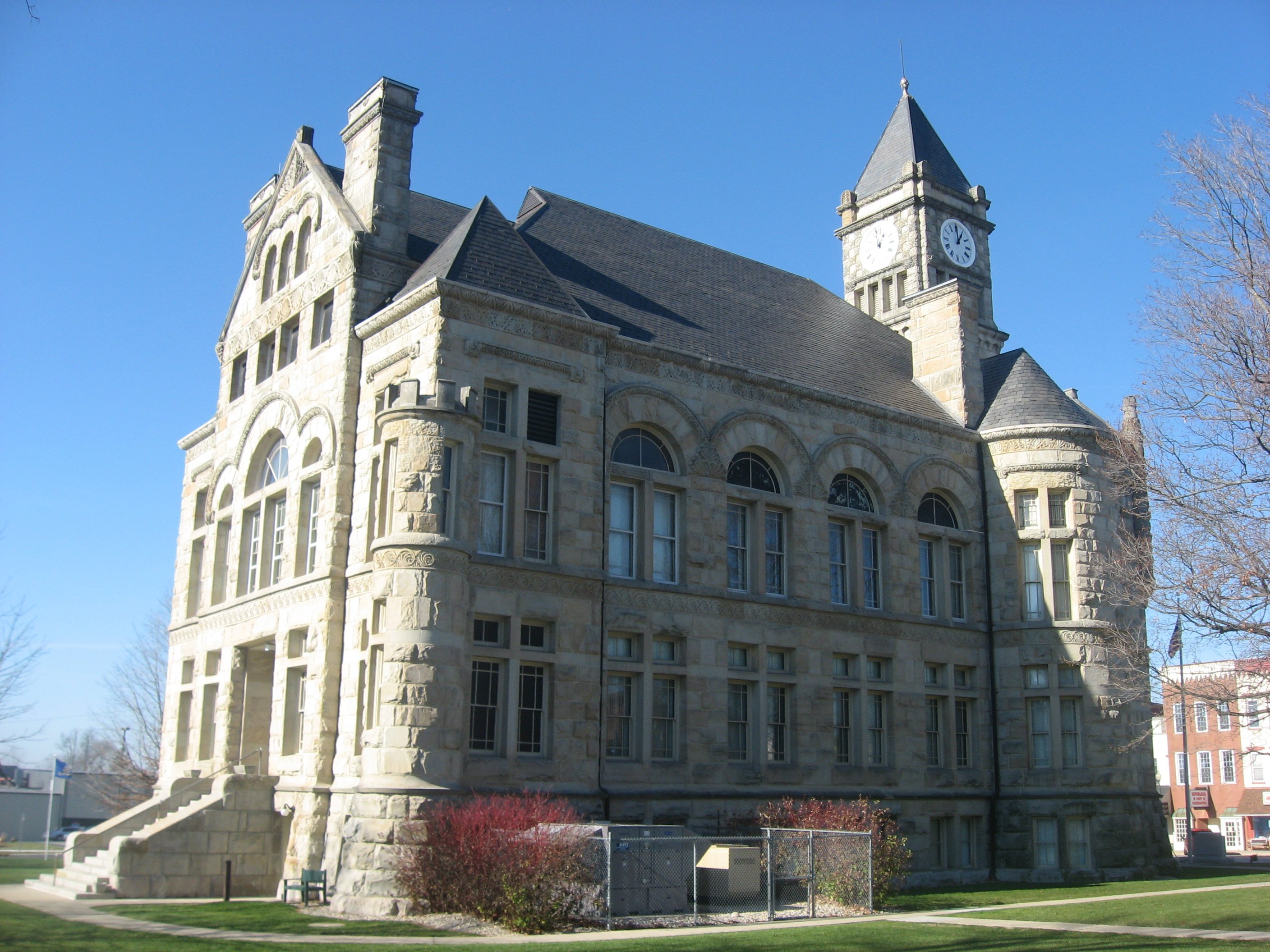 Eastern side and rear of the Union County Courthouse, located on Courthouse Square in downtown Liberty, Indiana, United States. Built in 1890, it is listed on the National Register of Historic Places.